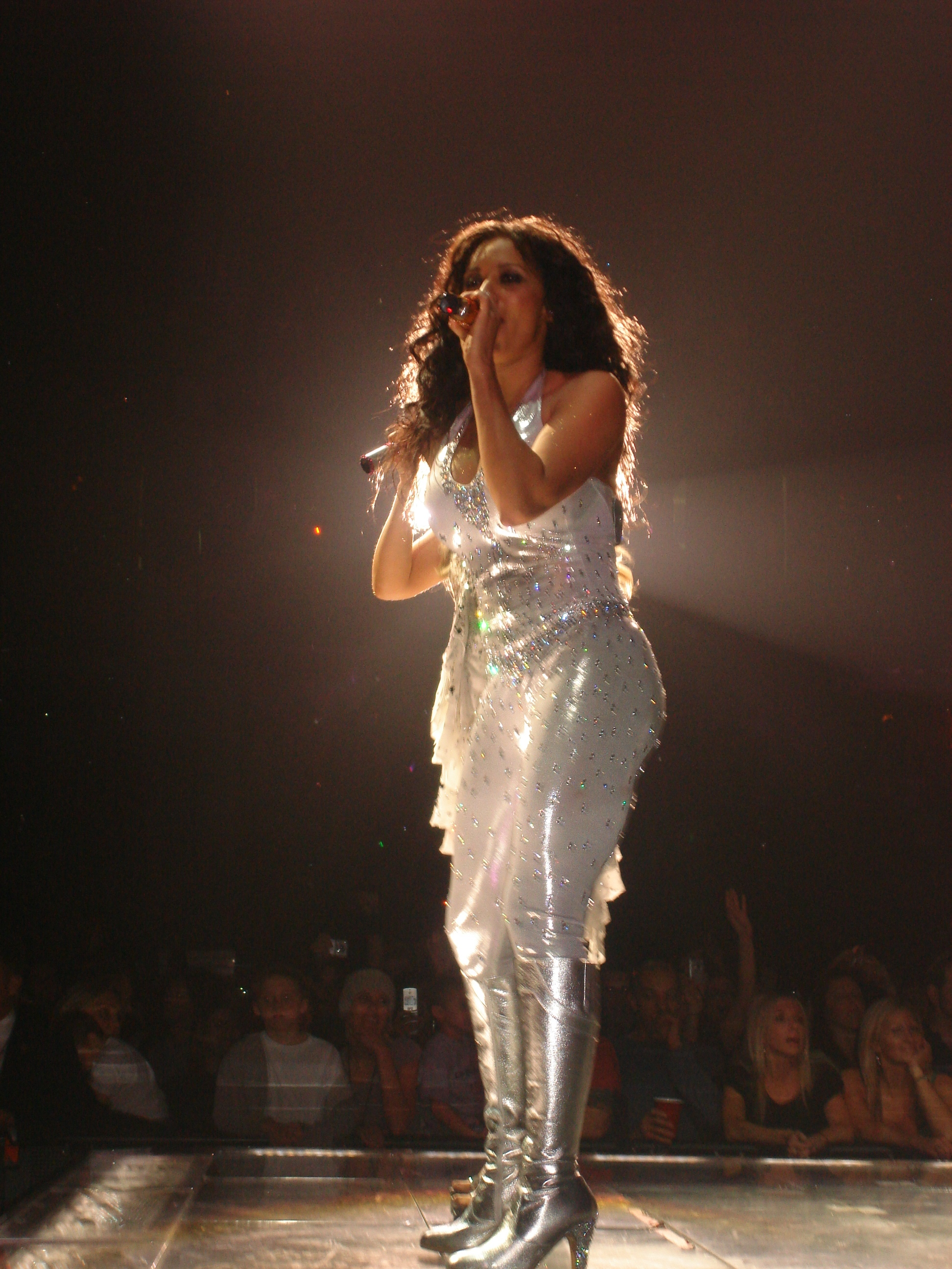 Melanie Brown during The Return Of The Spice Girls World tour in Detroit, MI on 16 FEB 2006.